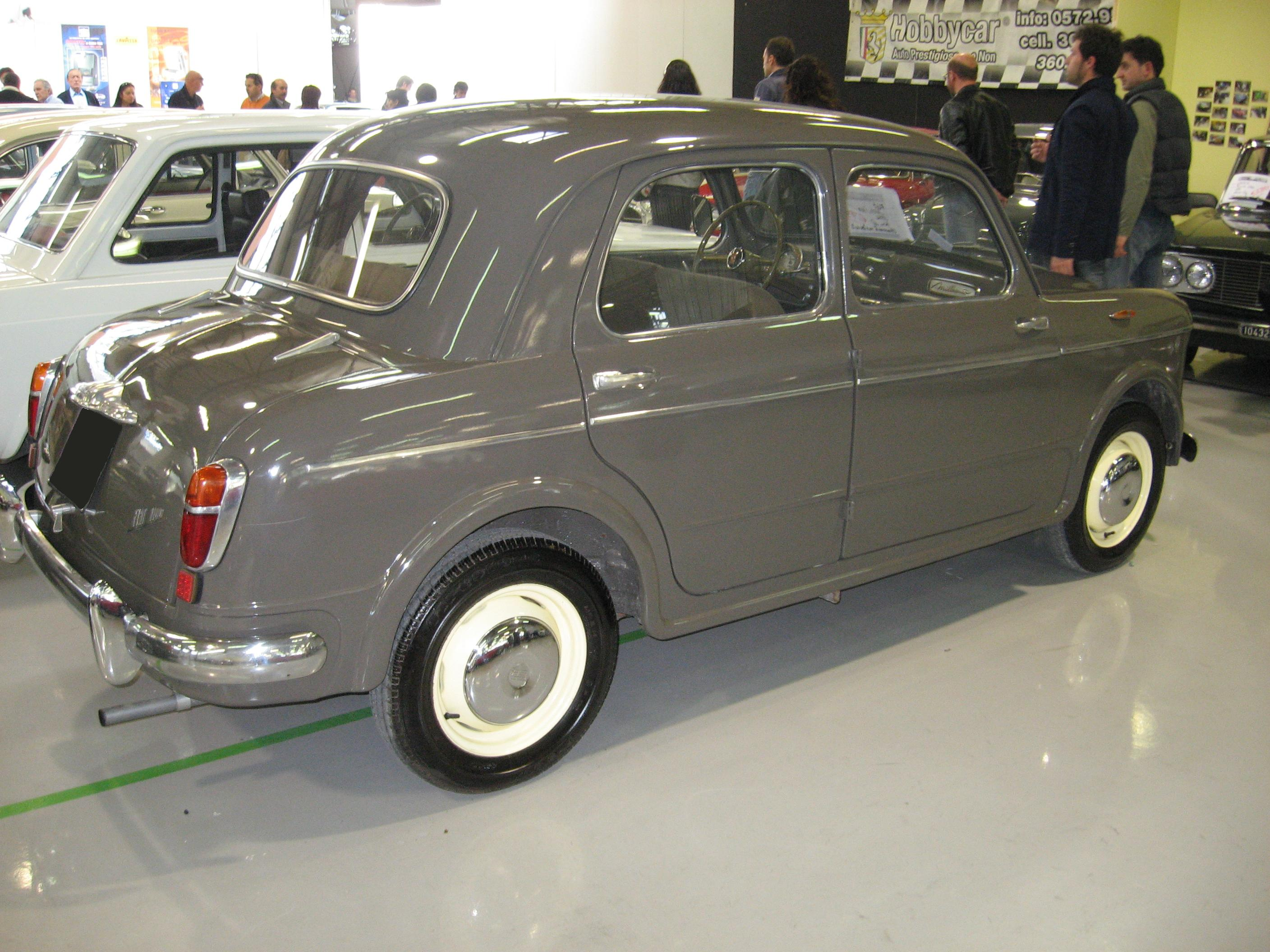 Fiat 1100/103, Forlì (Italy), vintage car show